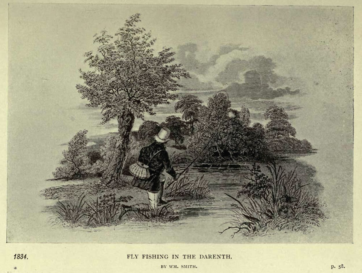 Fly Fishing in Darenth circa 1834 from Fishing and Shooting-Buxton (1902)